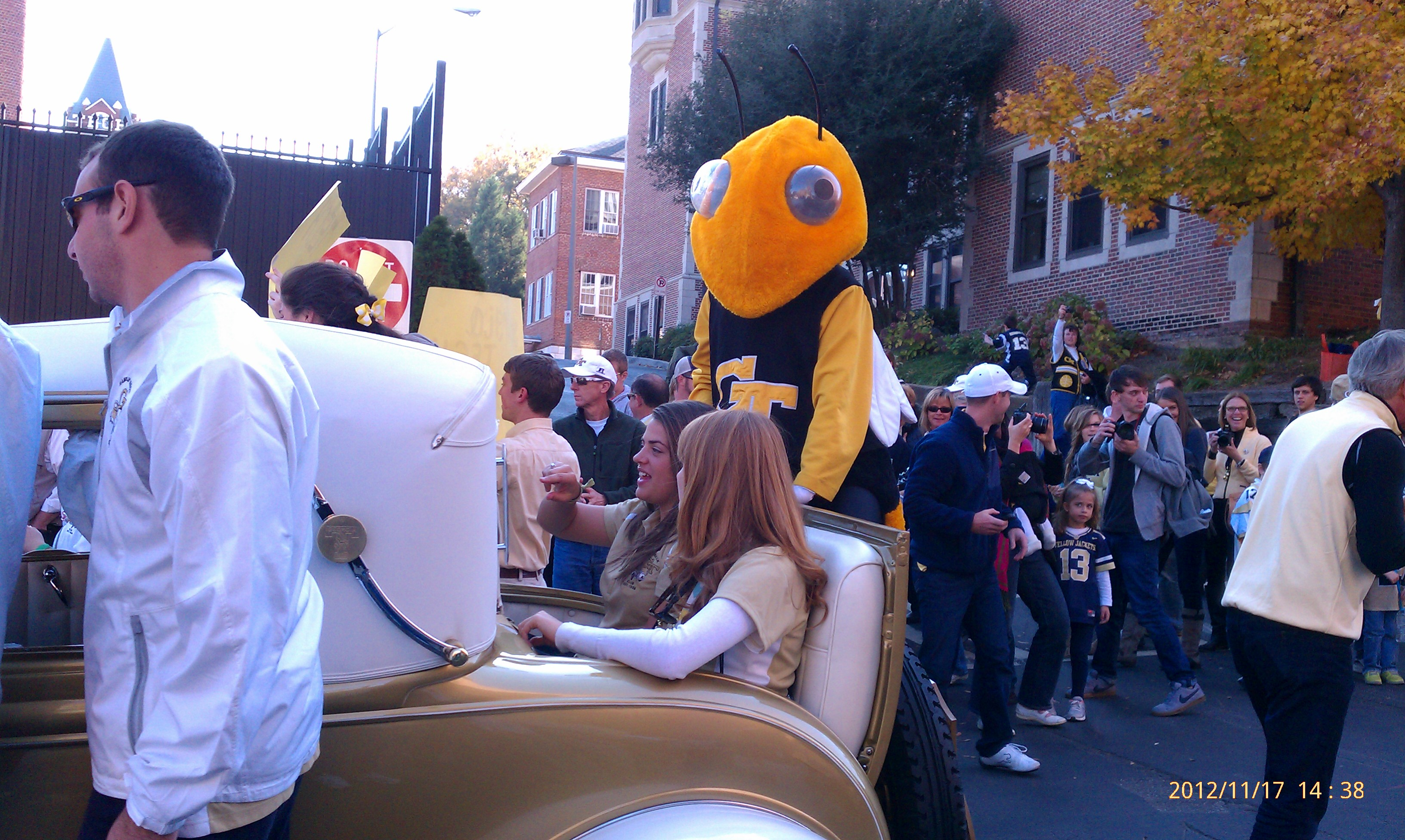 Buzz riding on the back of the Ramblin' Wreck on Bobby Dodd Way before the Duke game on 11/17/2012